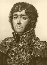 Horace Sébastiani (1772-1851), french marshall and statesman